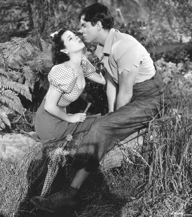 Billie Seward and Jeff York (aka Granville Owen) in the film Li'l Abner (1940) - cropped screenshot (original image : see source)